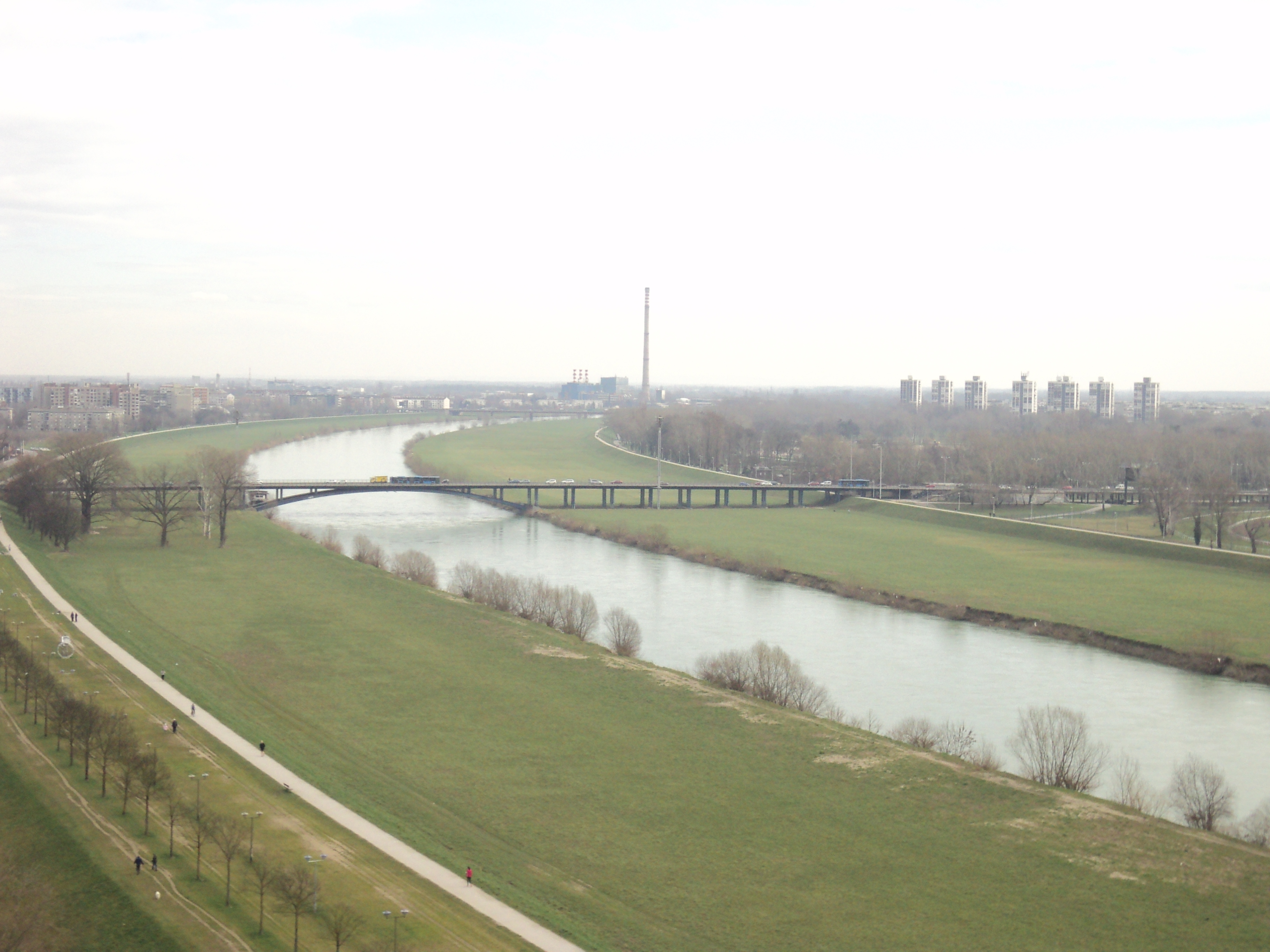 View at the Sava river in Zagreb flowing towards east.